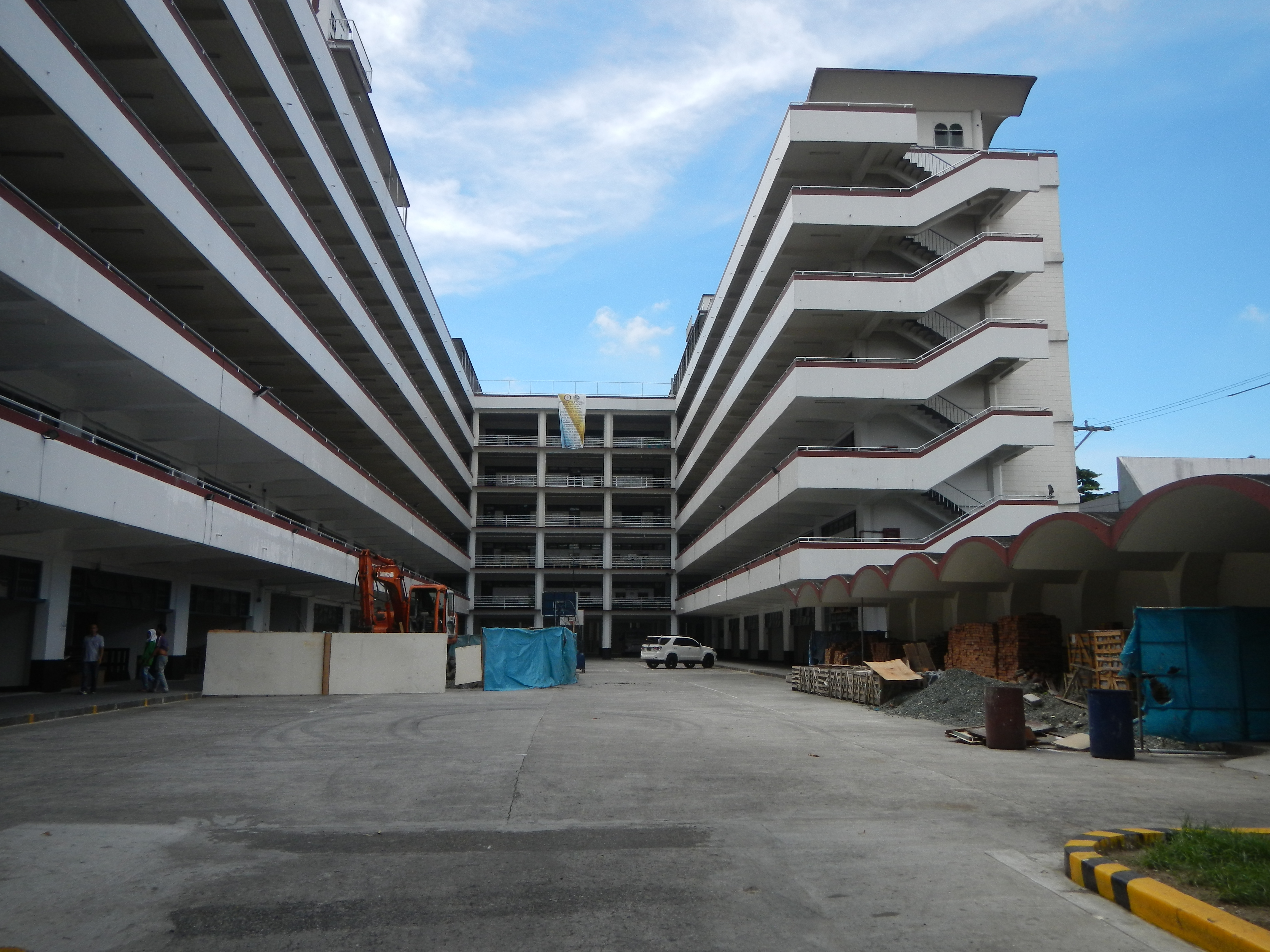 Manuel L. Quezon University Manuel L. Quezon University R. Hidalgo Street Legislative districts of Manila 3rd District, Barangay 390, 391, 392 and 393, Zone 40, District III, Quiapo, Manila, City of Manila.